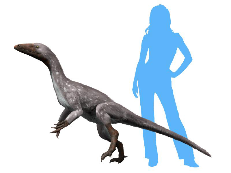 Life reconstruction of Tawa hallae